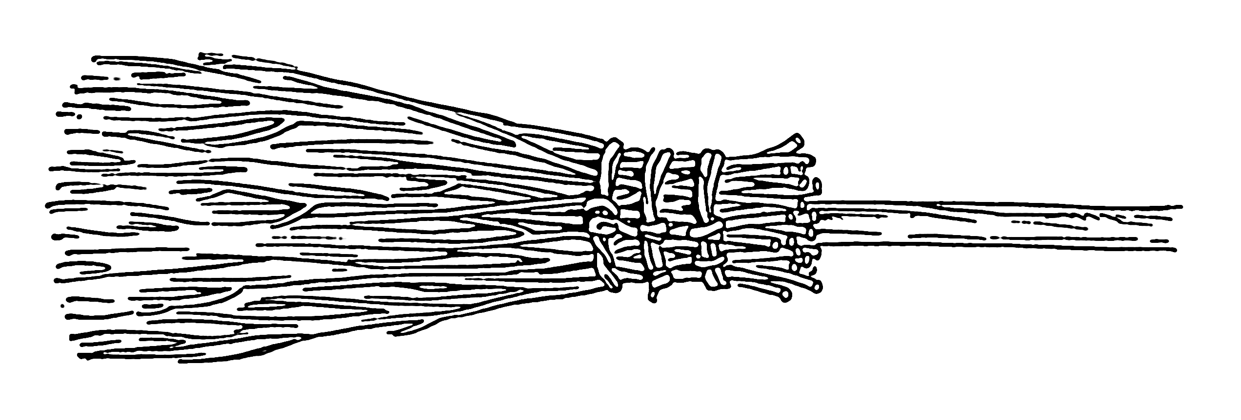 Line art drawing of a besom broom.